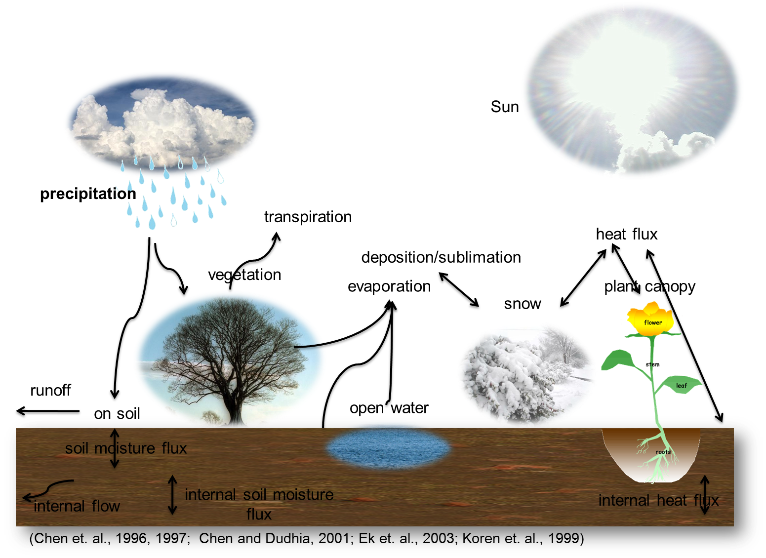 A graphical representation of the global hydrological exchanges